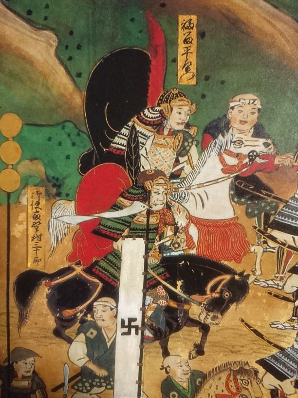 Fukuzumi Hidekatsu(Riding a white horse) and Nonomura Masanari(Black horse)